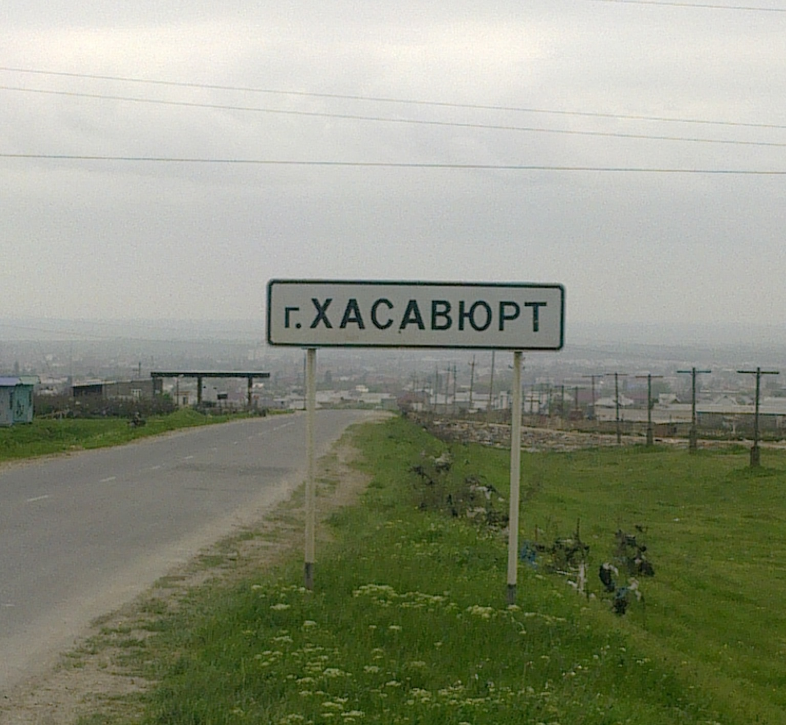 Entrance to the city of Khasavyurt on the south side